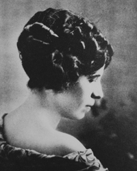 Soledad C. Chacon